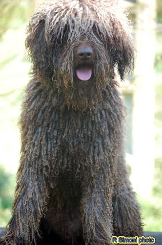 Spanish water dog